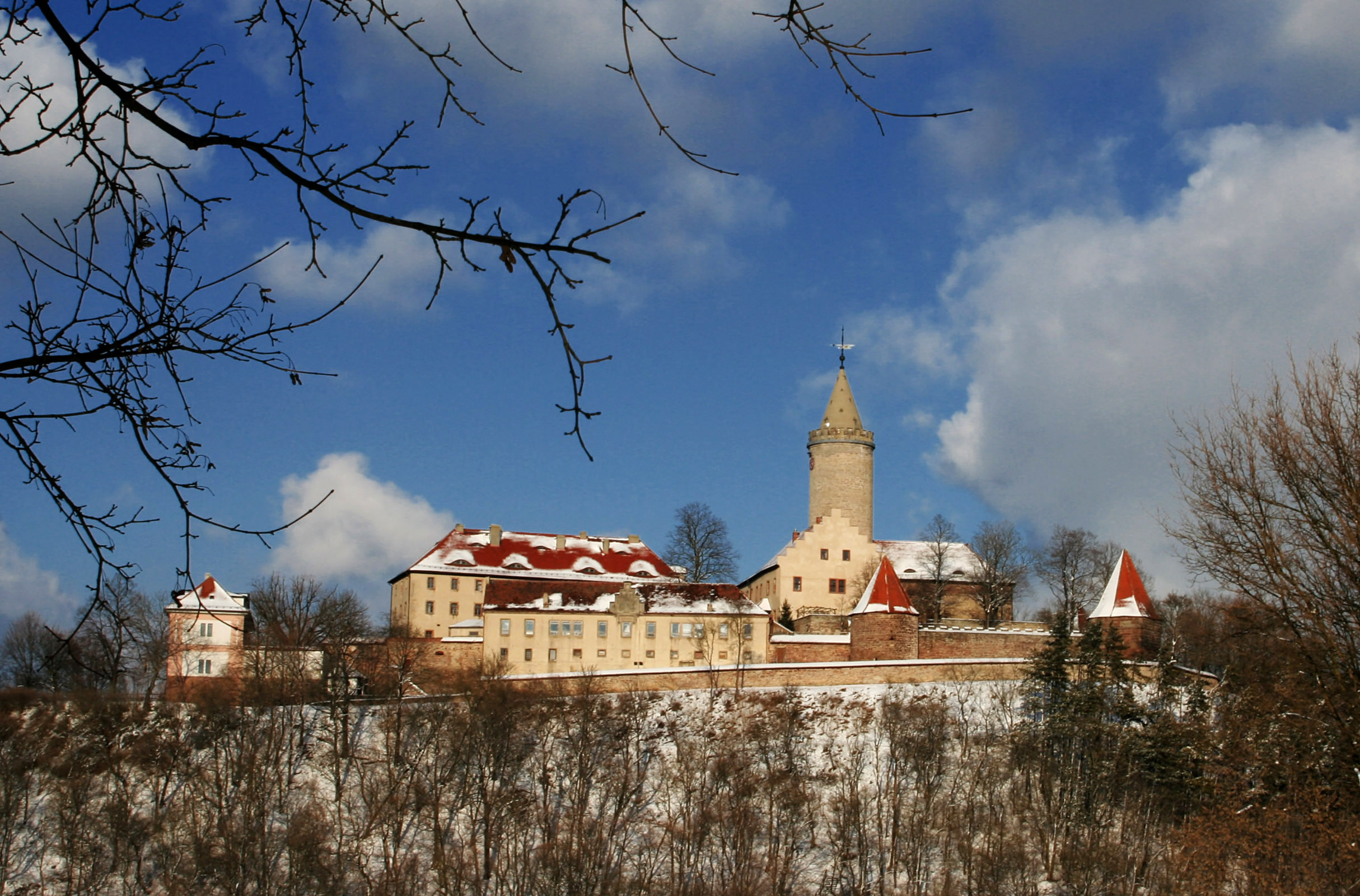 Castle Leuchtenburg near Kahla, Germany.